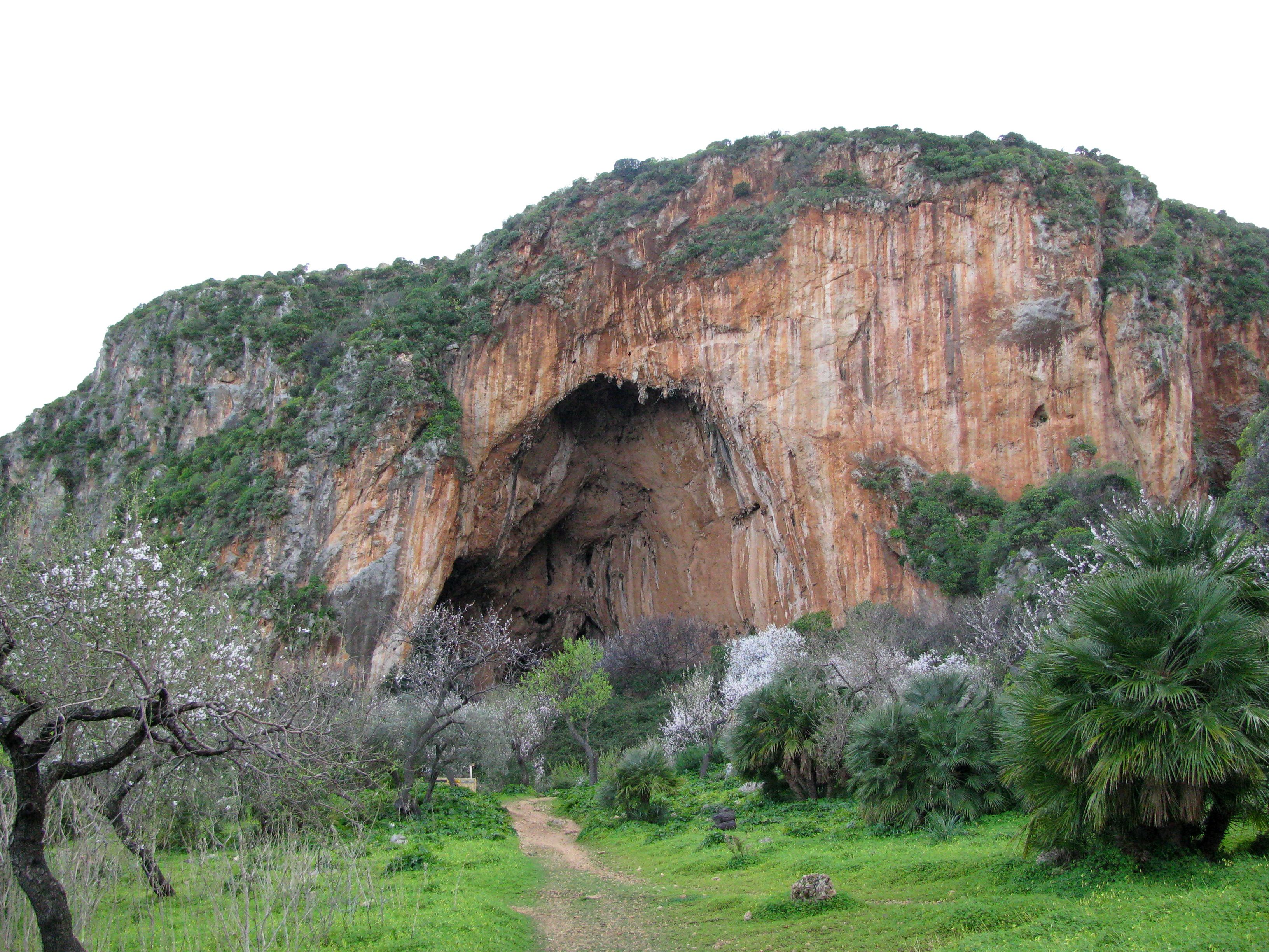 Zingaro - Grote des Uzzo